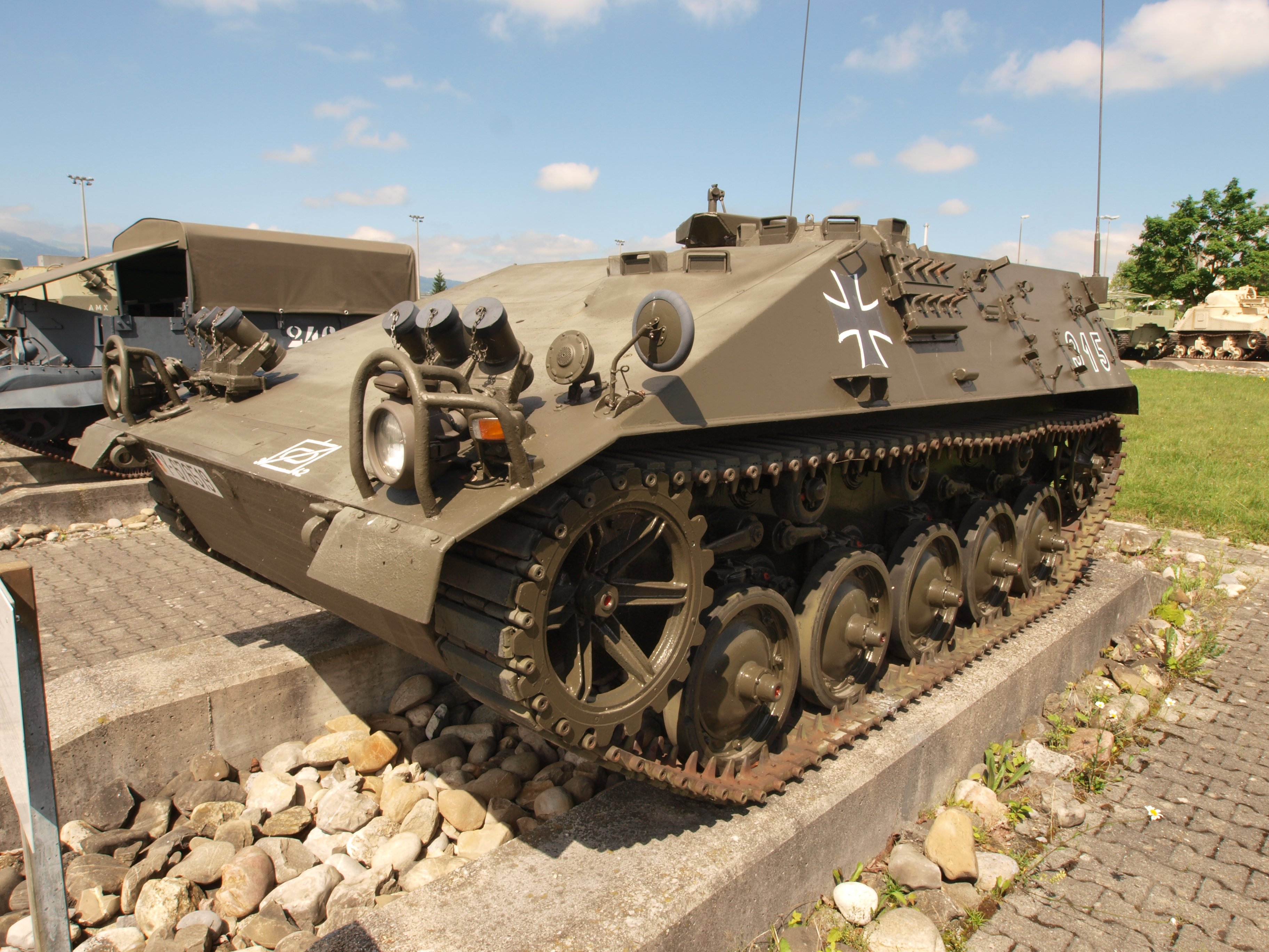 Photographed at the army base Thun, Switserland.